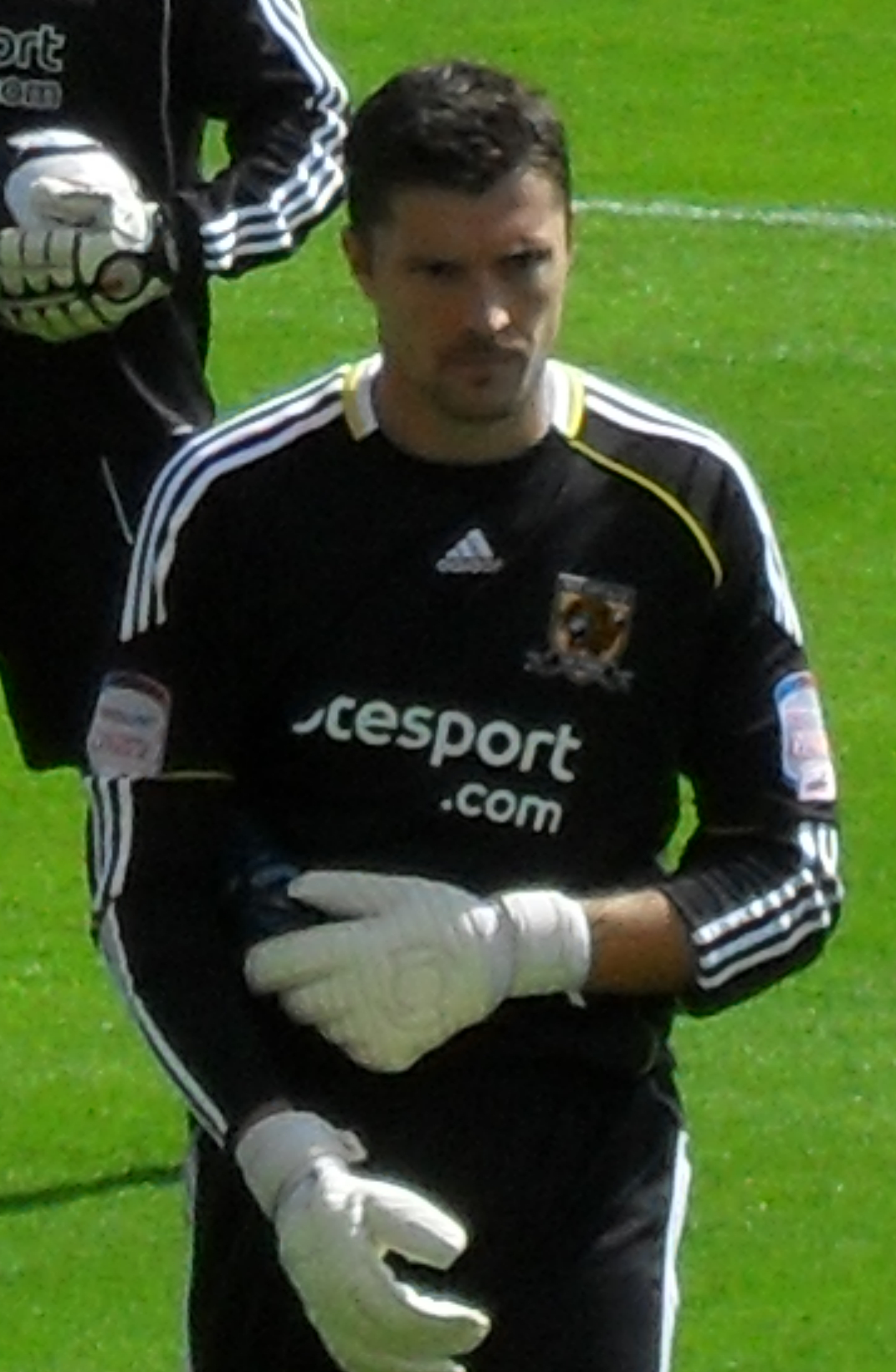 Matt Duke